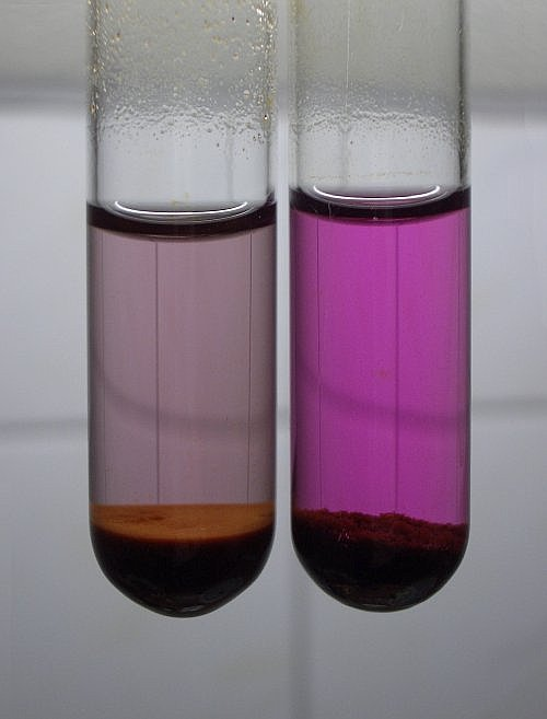 The left solution is sodium ferrate. The right solution is a permanganate.